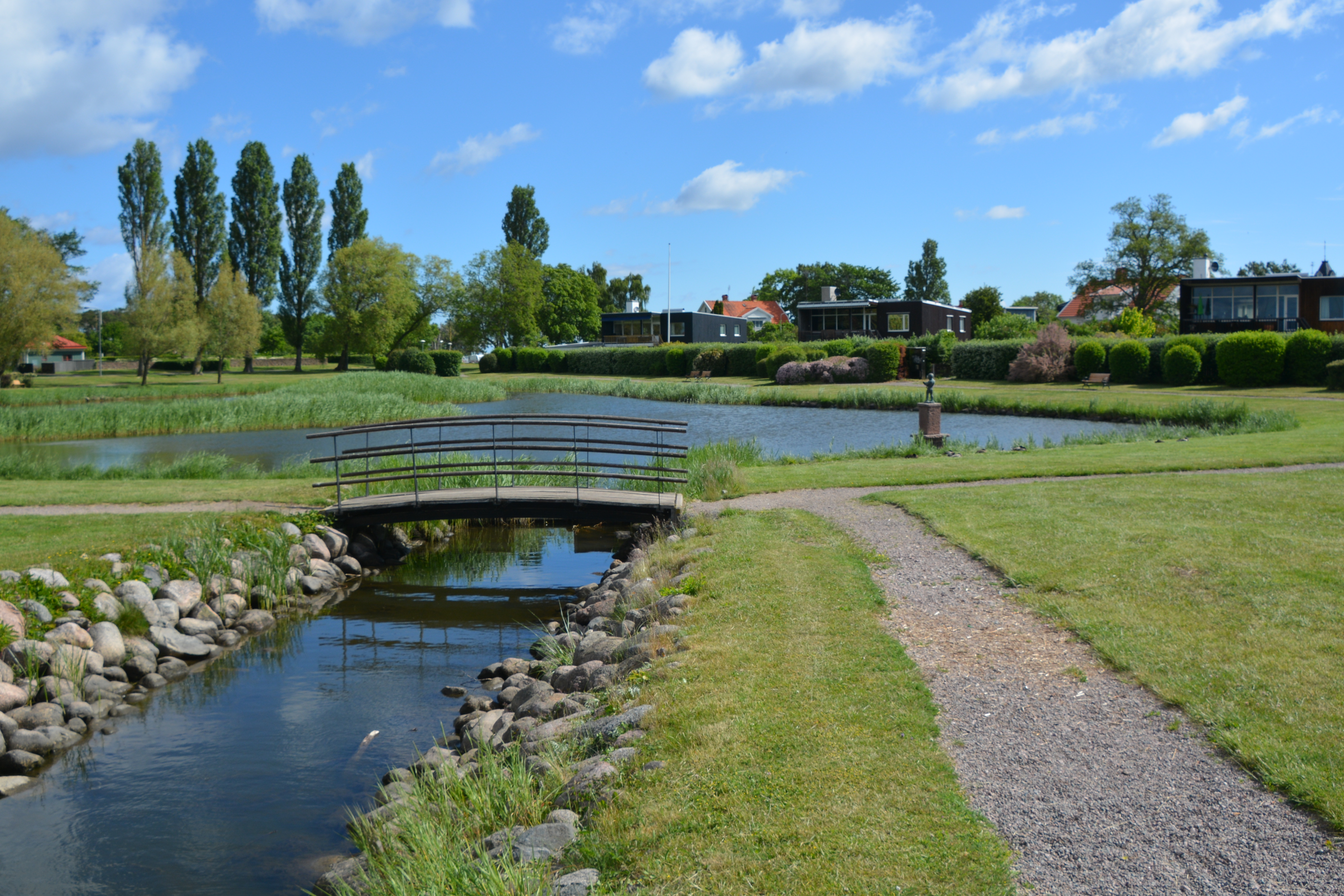 Bäckmans park, Borgholm